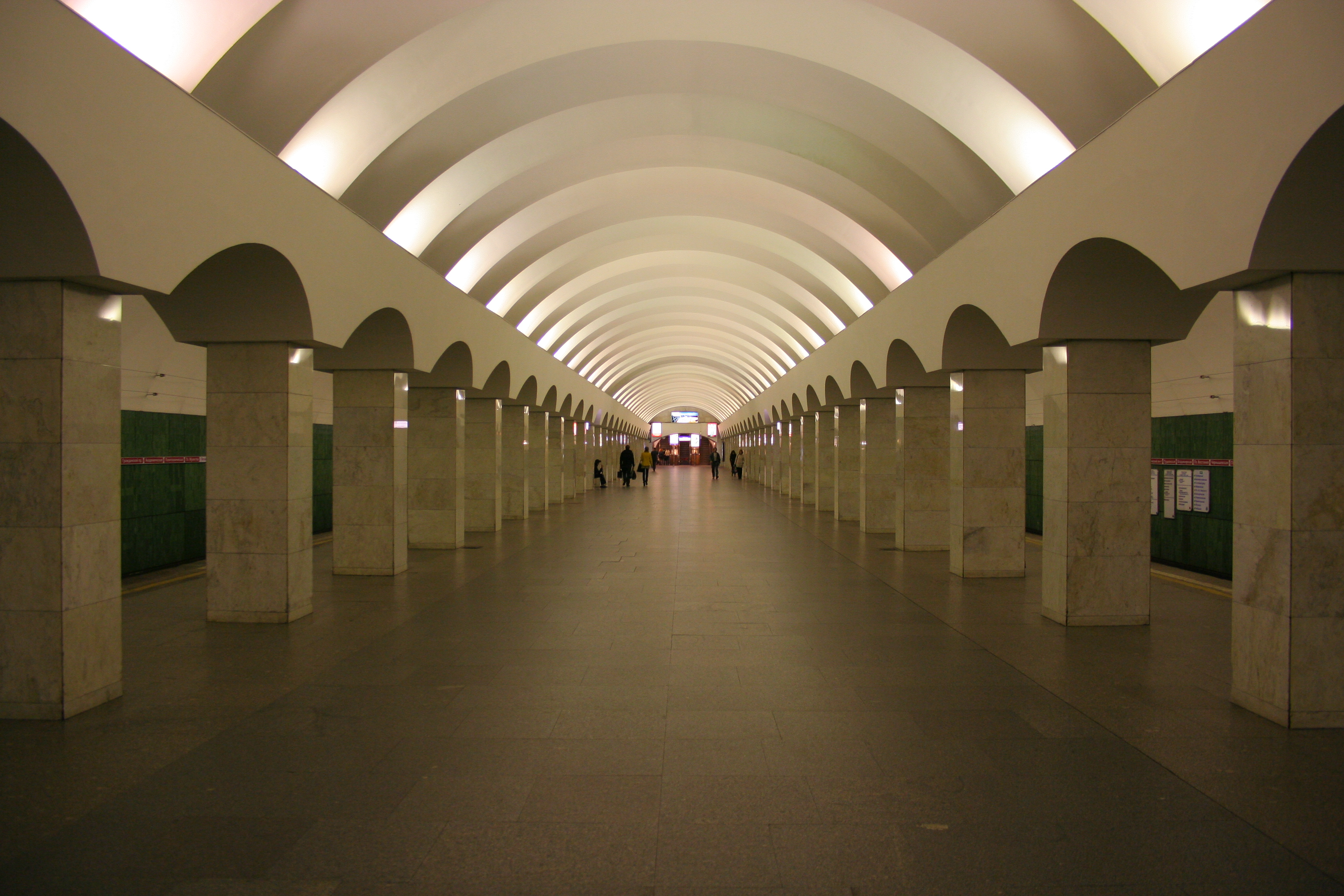 Lesnaya station of Saint Petersburg Metro